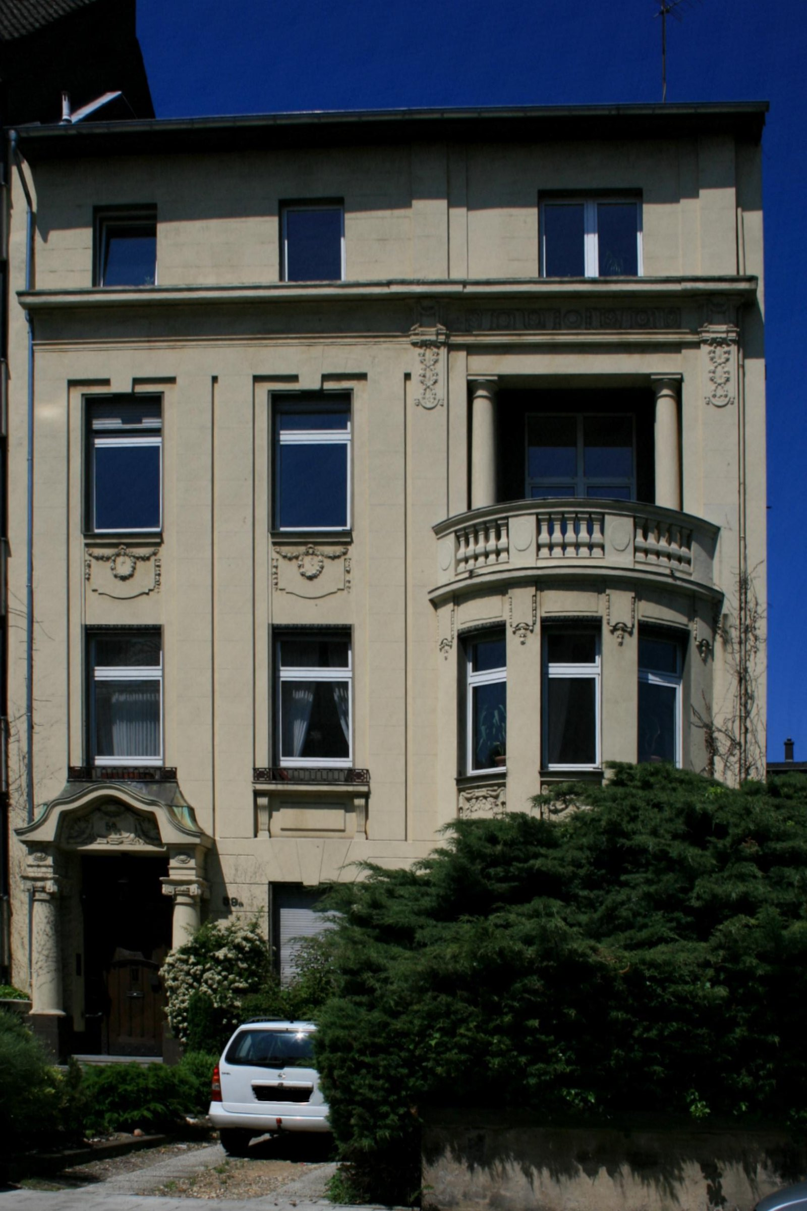 Cultural heritage monument No. R 048 in Mönchengladbach